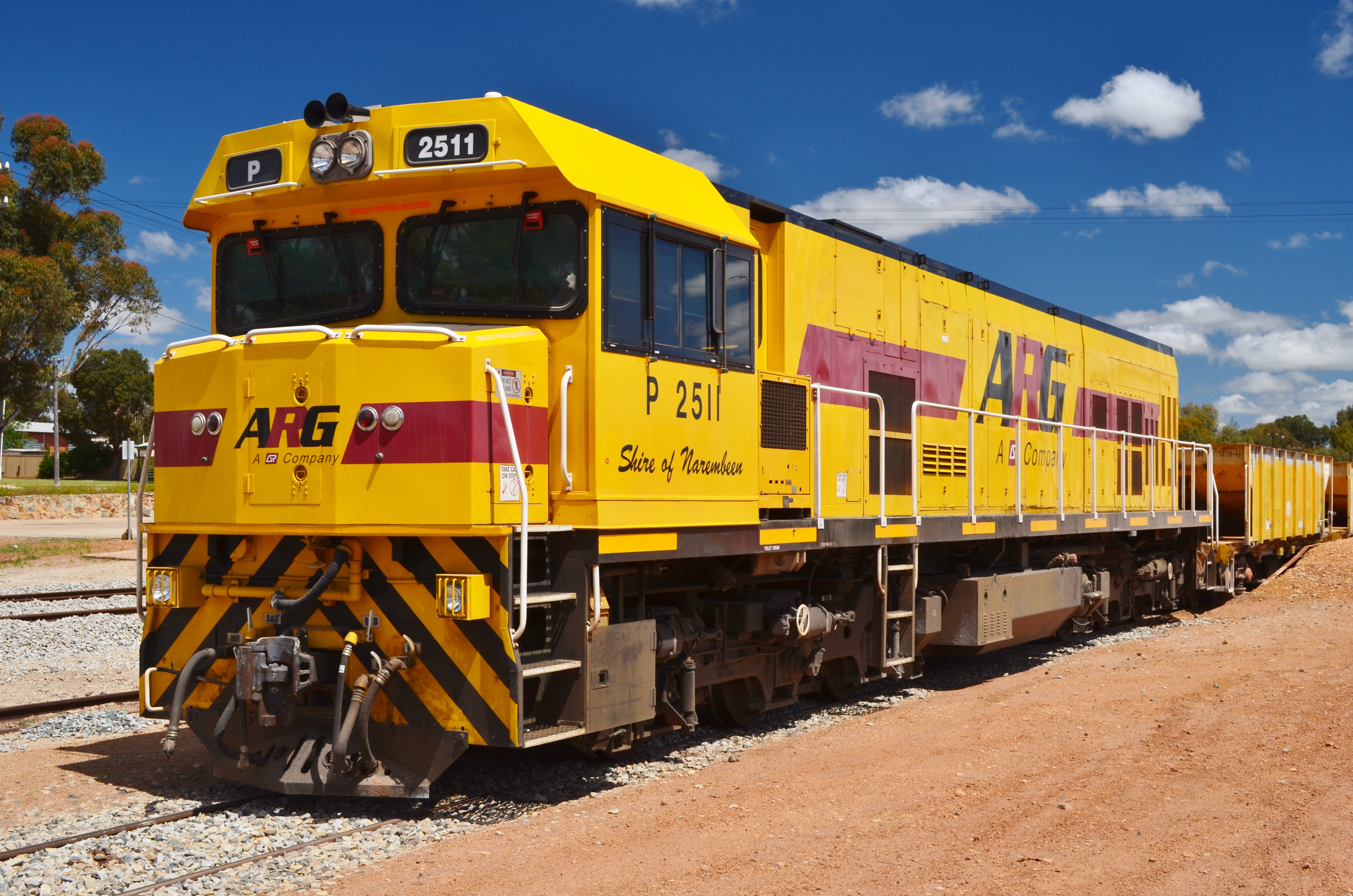 Portrait of Western Australian Government Railways (WAGR) P class diesel-electric locomotive no. P 2511 Shire of Narembeen, in ARG yellow livery, stabled at Goomalling, Western Australia, with a ballast train.